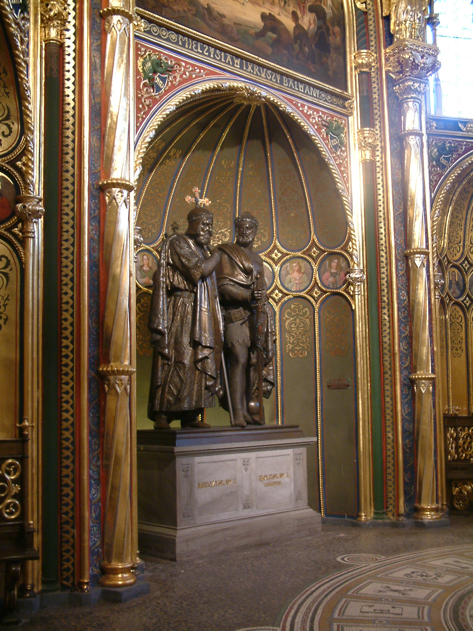 Monument of Mieszko I and Bolesław Chrobry, Golden Chapel in Archicathedral Basilica, Poznań